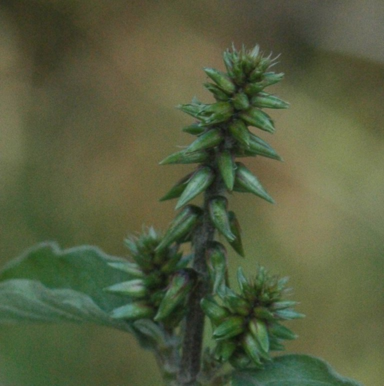 Achyranthes bidentata, flower